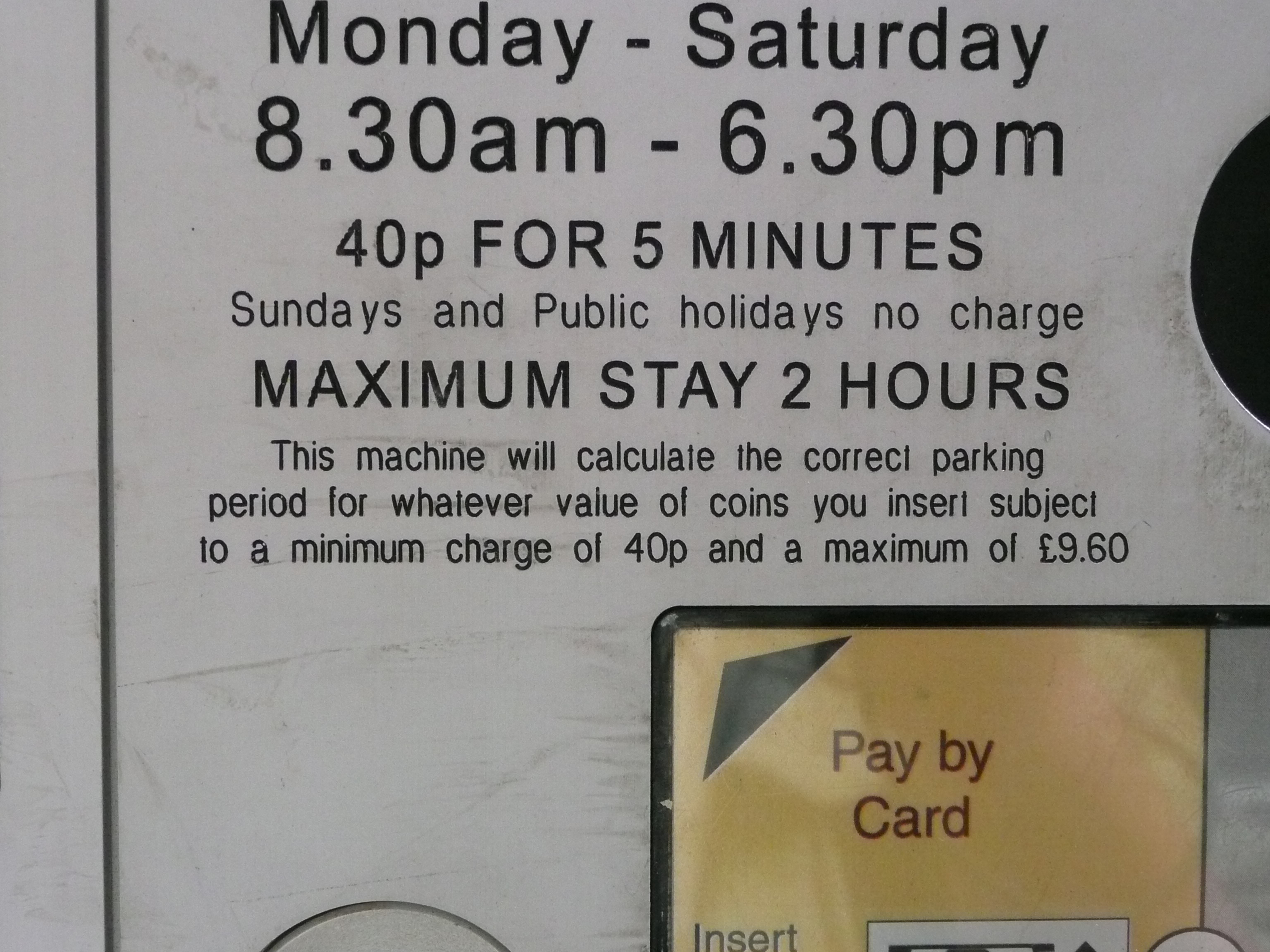 Message on a 'pay and display' machine showing that there is a (partial) solution for people who wish to park their vehicles but do not have the exact money and would prefer not to make an over-payment. This is possible because the machine will calculate the correct parking period for the actual payment.